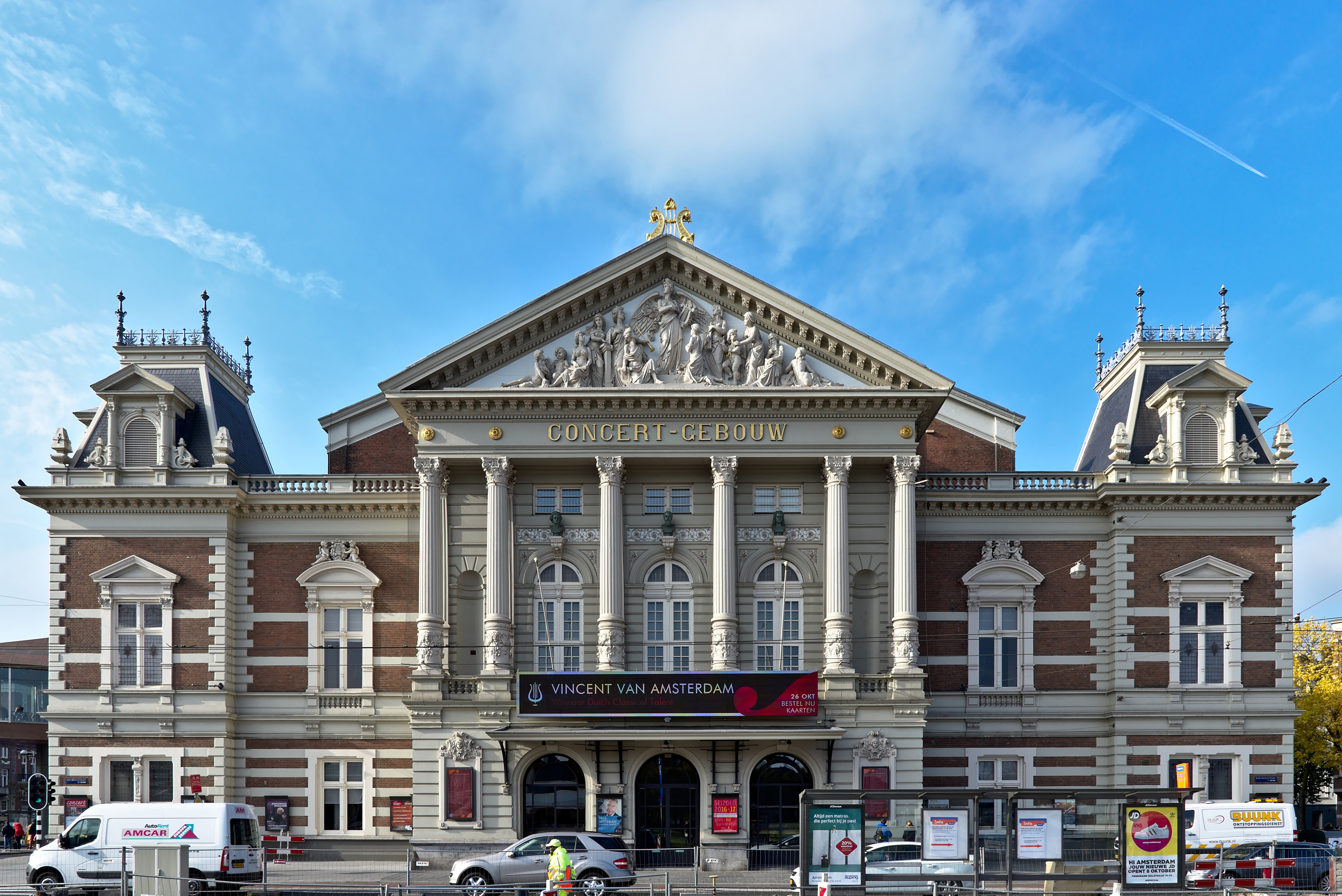 The Concertgebouw in Amsterdam.